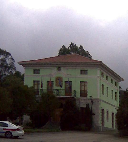 Bárcena de Cicero Town Hall (Gama, Cantabria)